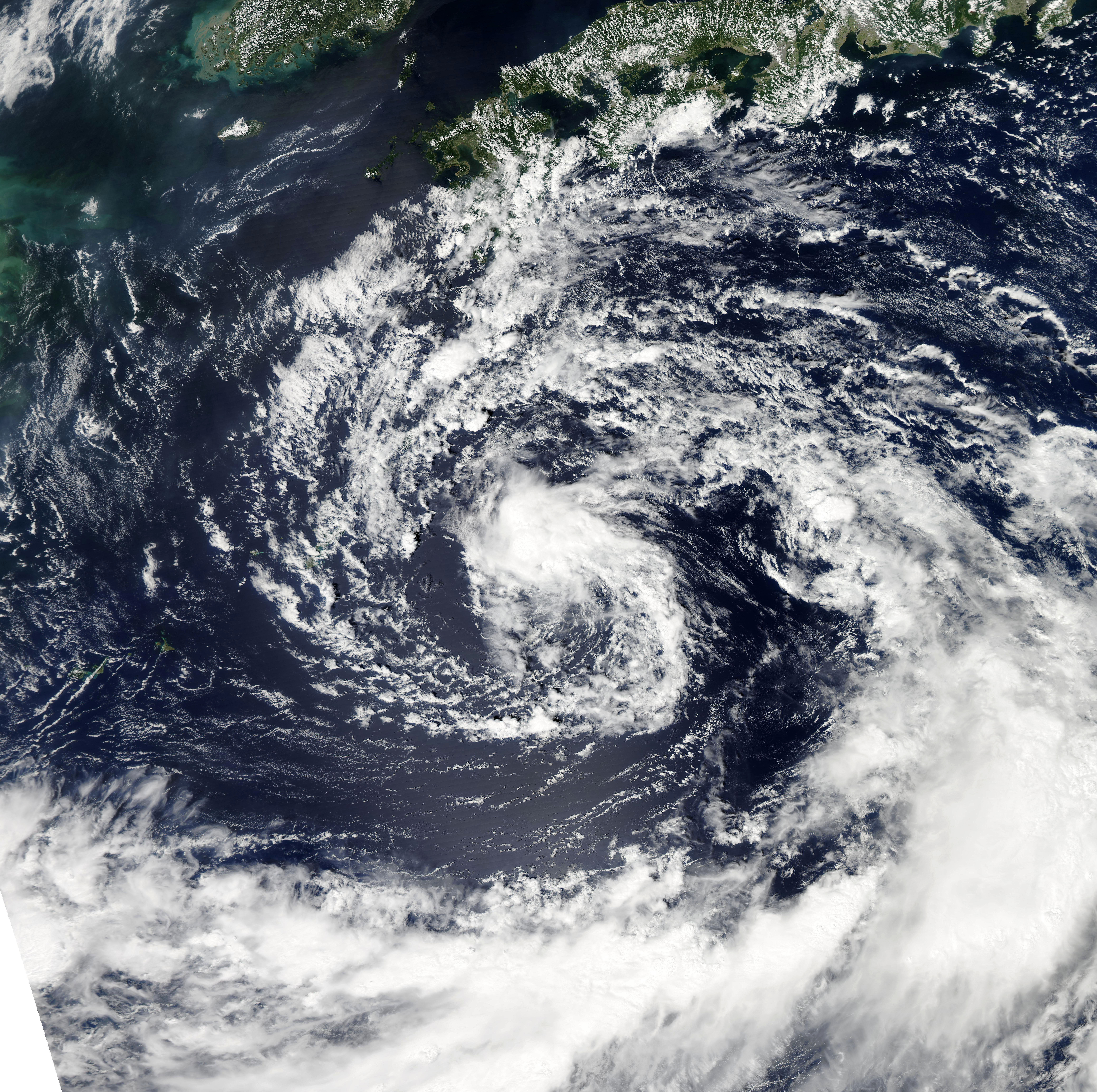 Tropical Storm Roke on September 15, 2011